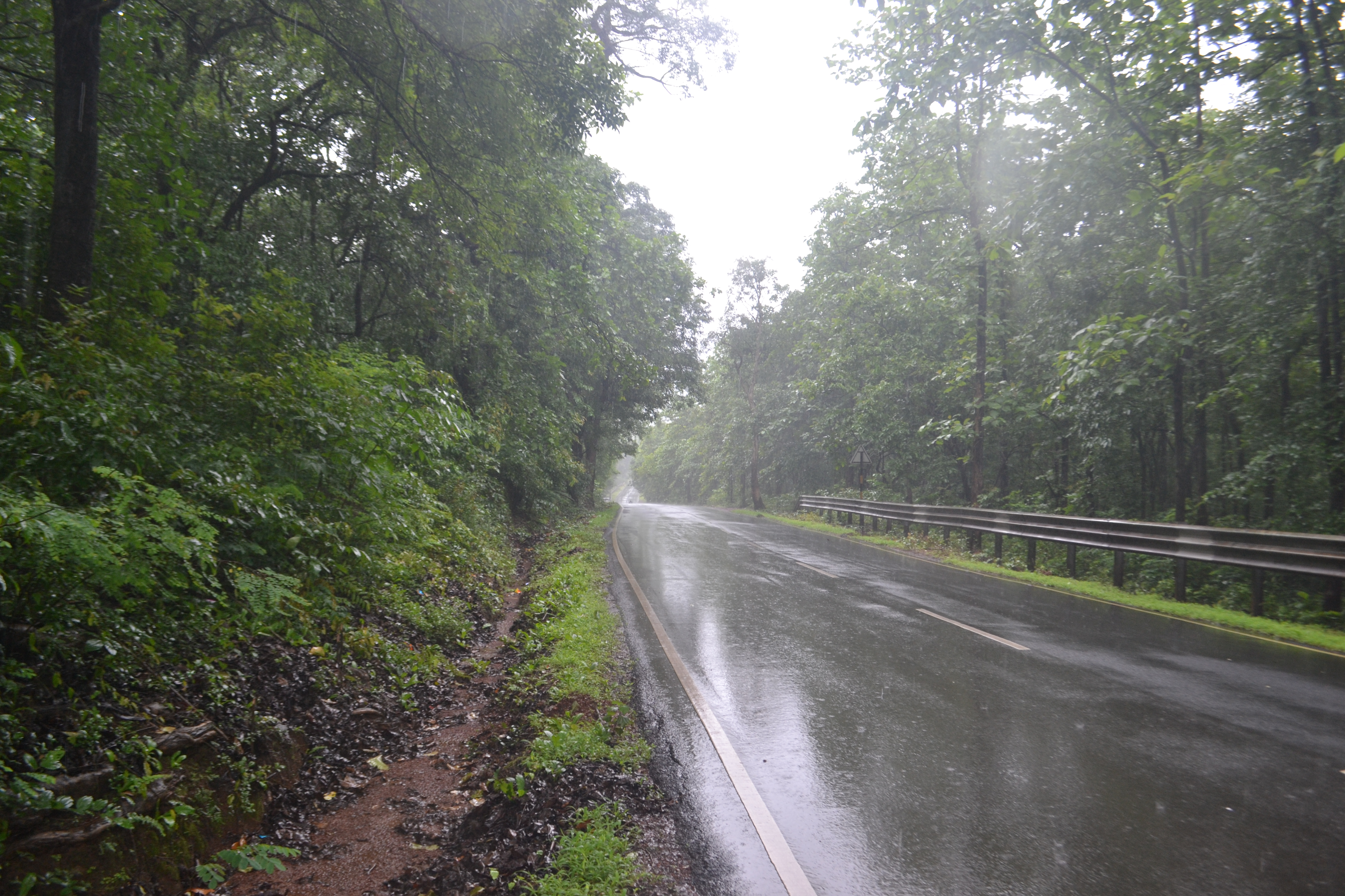 Road after a rain.